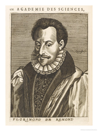 Florimond de Remond